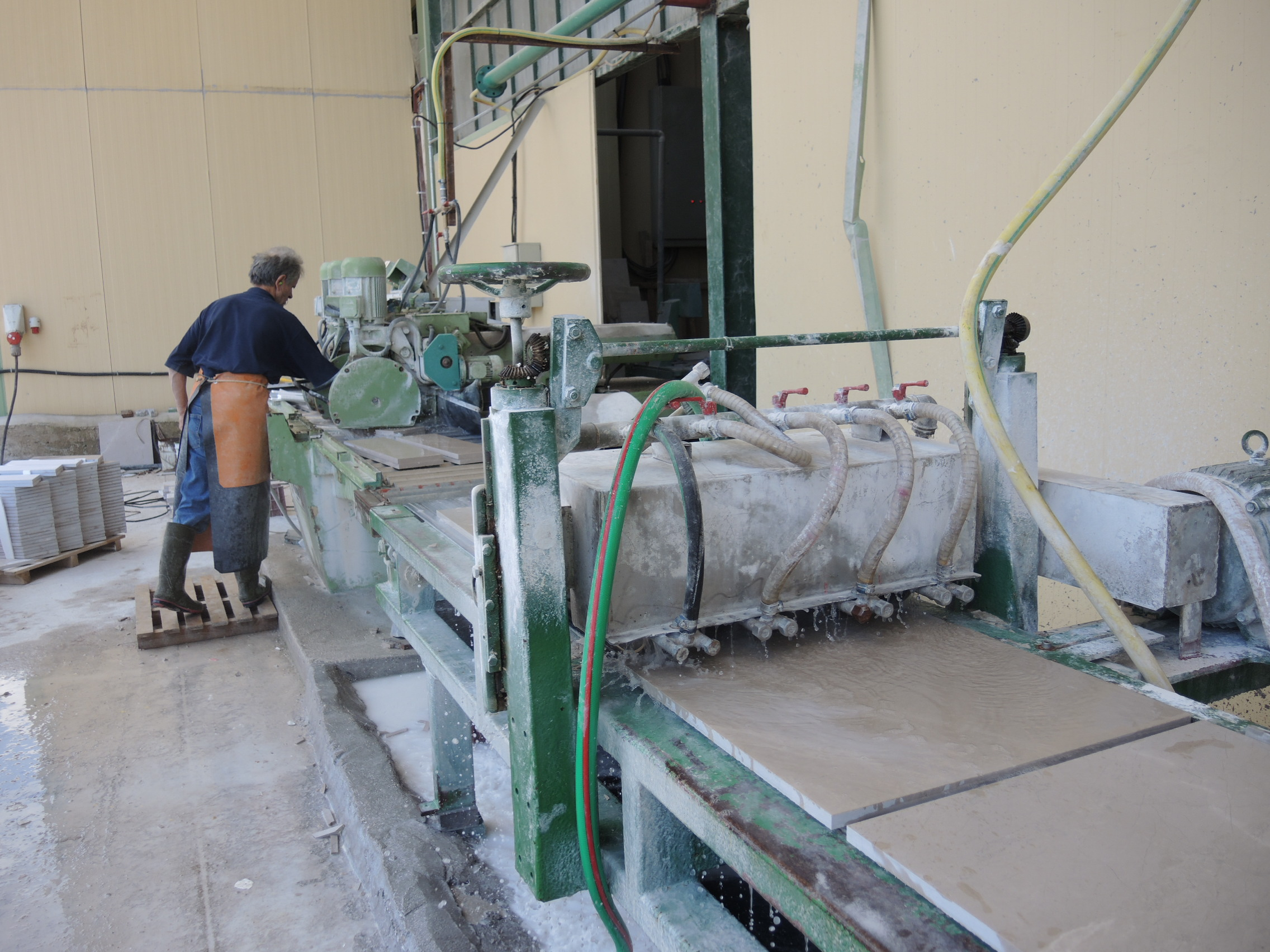 Marble processing factory, Nauplion Greece